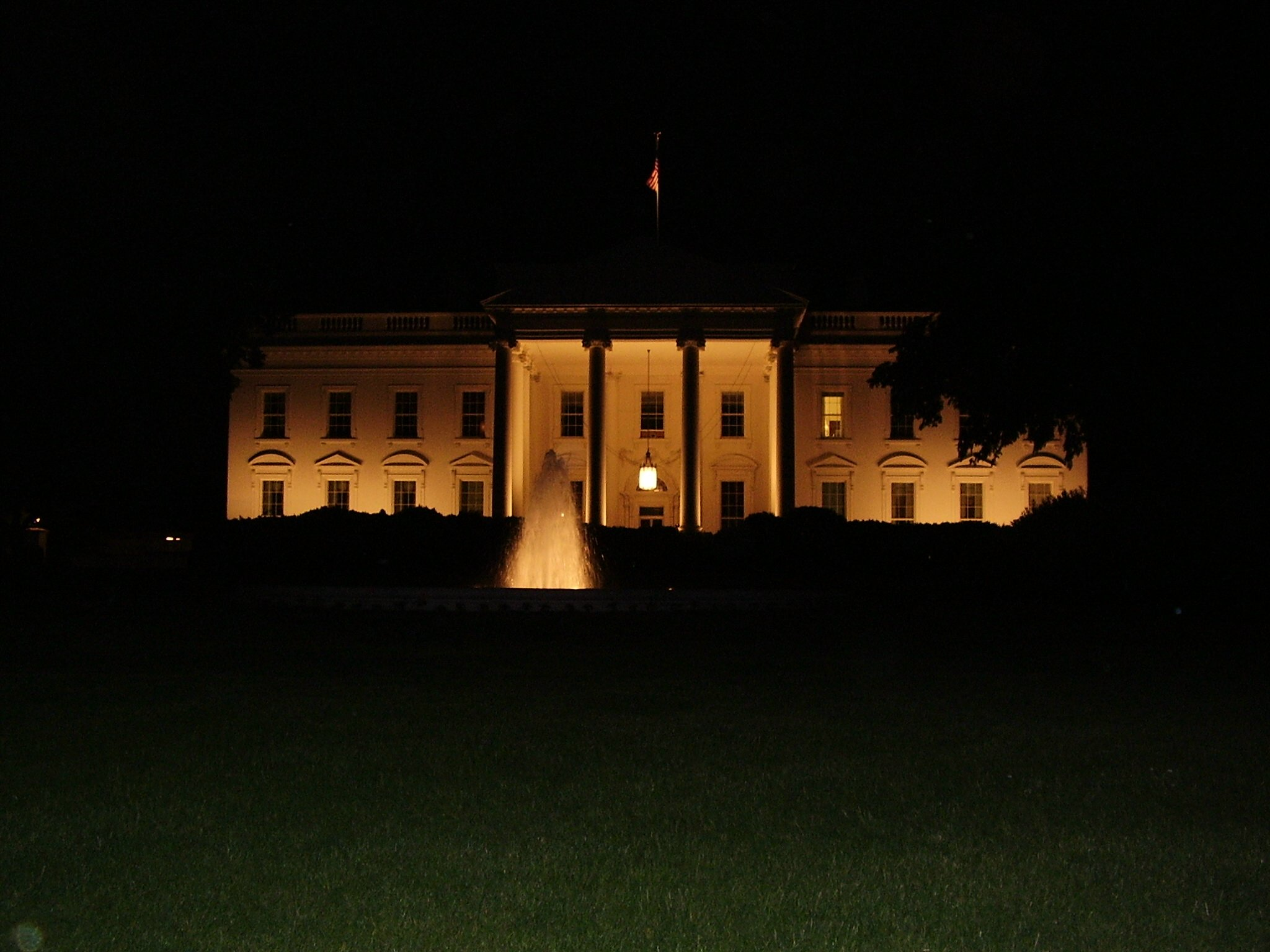 The White House at night